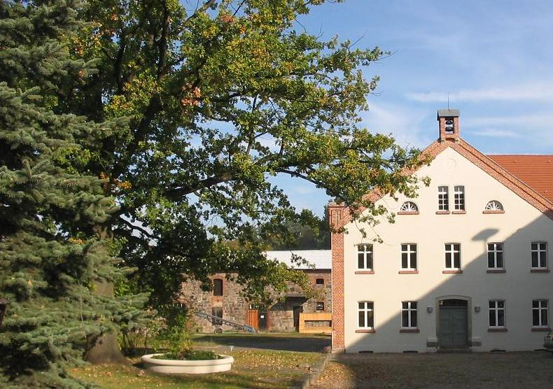 Estate Klein Glien, Klein-Glien is a part of Hagelberg. The village Hagelberg again is a part of the town Belzig in the district Potsdam Mittelmark, state Brandenburg, Germany. The village appertains to the nature park Naturpark Hoher Fläming.